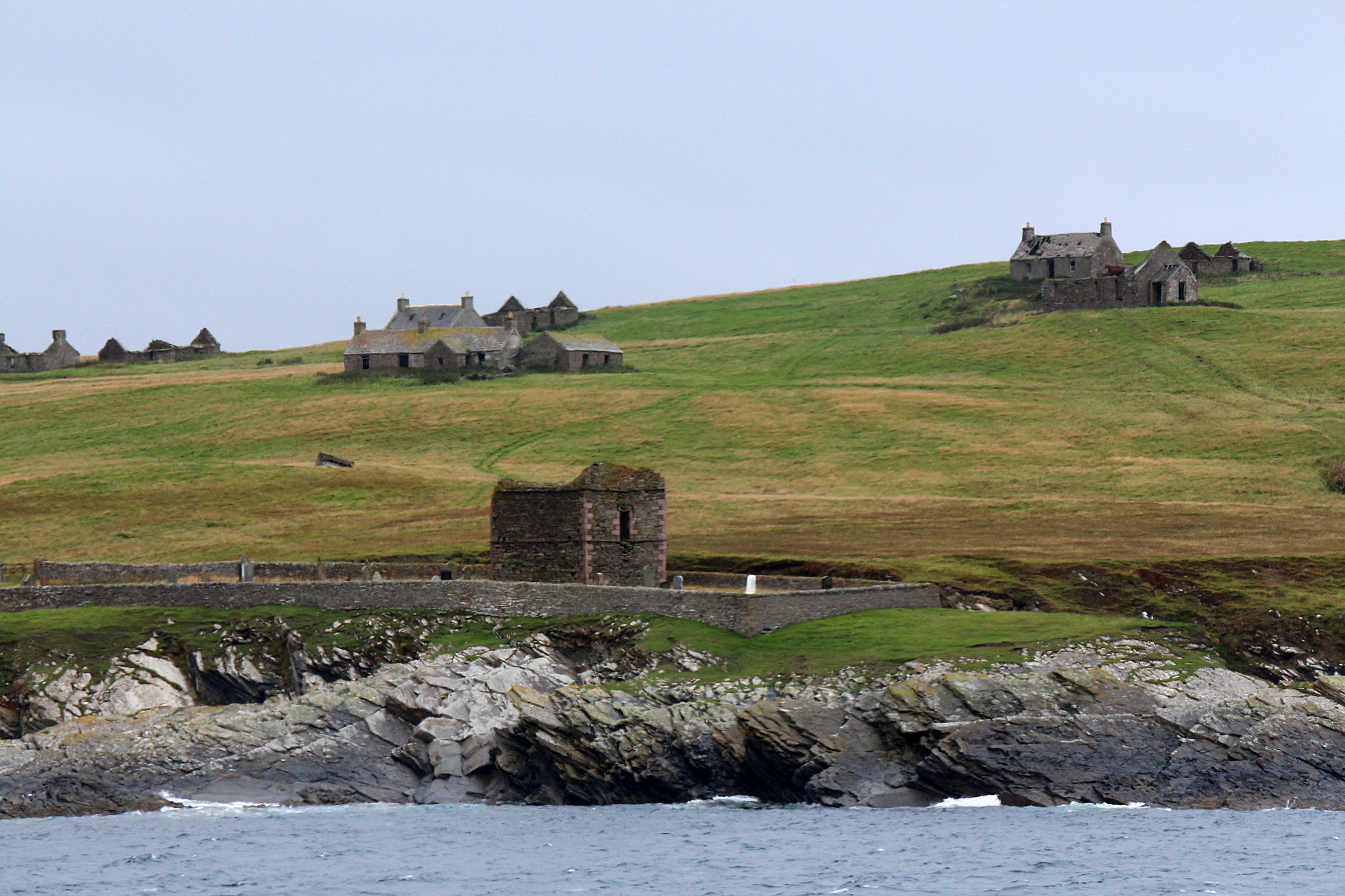 Stroma mausoleum and houses